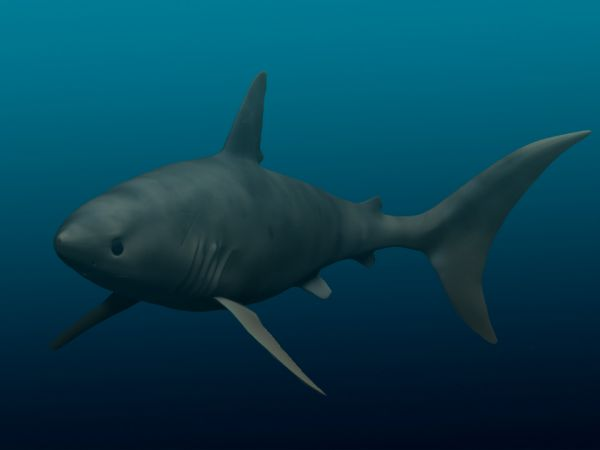 Otodus obliquus, Paleocene and Eocene, digital.